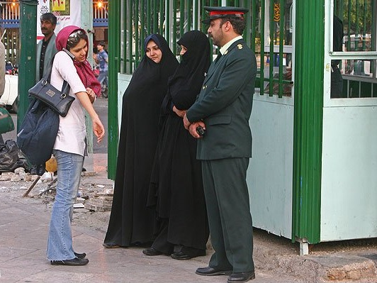 The beginning of the First vice squad of guidance patrol in Tehran - 22 April 2006. for more, Fars archive (in Persian)